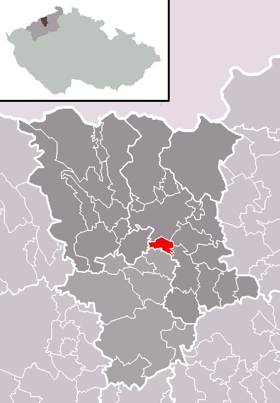 Location of Kladruby municipality within Teplice District and administrative area of Teplice as a Municipality with Extended Competence.